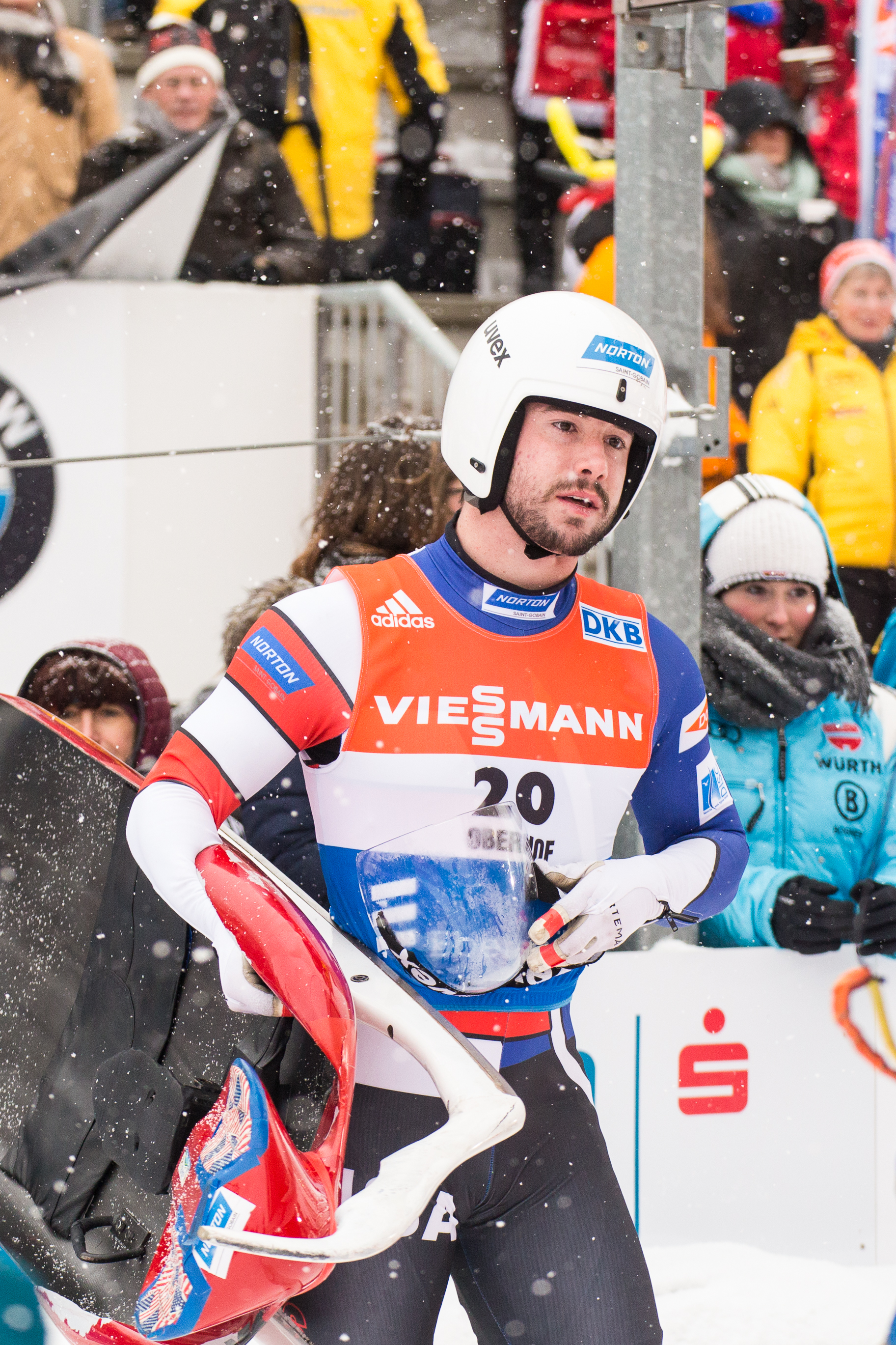 Luge world cup Oberhof 2016-01-17